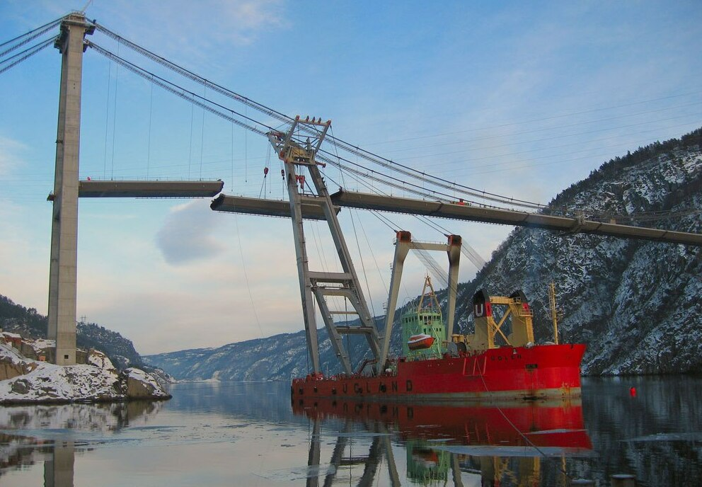 crane ship erecting a bridge over the Fedafjorden